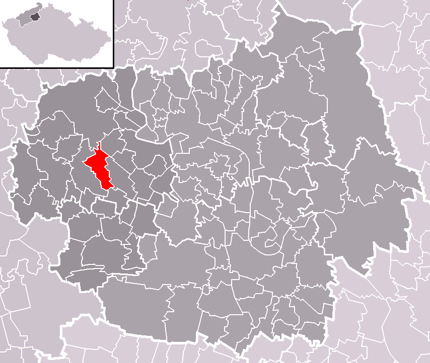 Location of Jenčice municipality within Litoměřice District and administrative area of Lovosice as a Municipality with Extended Competence.